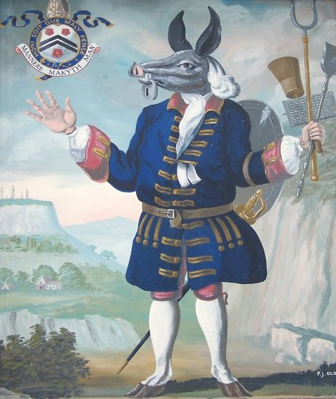 Sign for the Trusty Servant The Trusty Servant has a satirical sign. It depicts the ideal servant - a creature with a pig's head, standing for unfussiness in diet, with its snout locked for secrecy. The ears are of an ass, for patience, and it has stag's feet for swiftness. The left hand holds a brush, shovel and two-pronged fork. The sign has been painted by P J Oldreive.